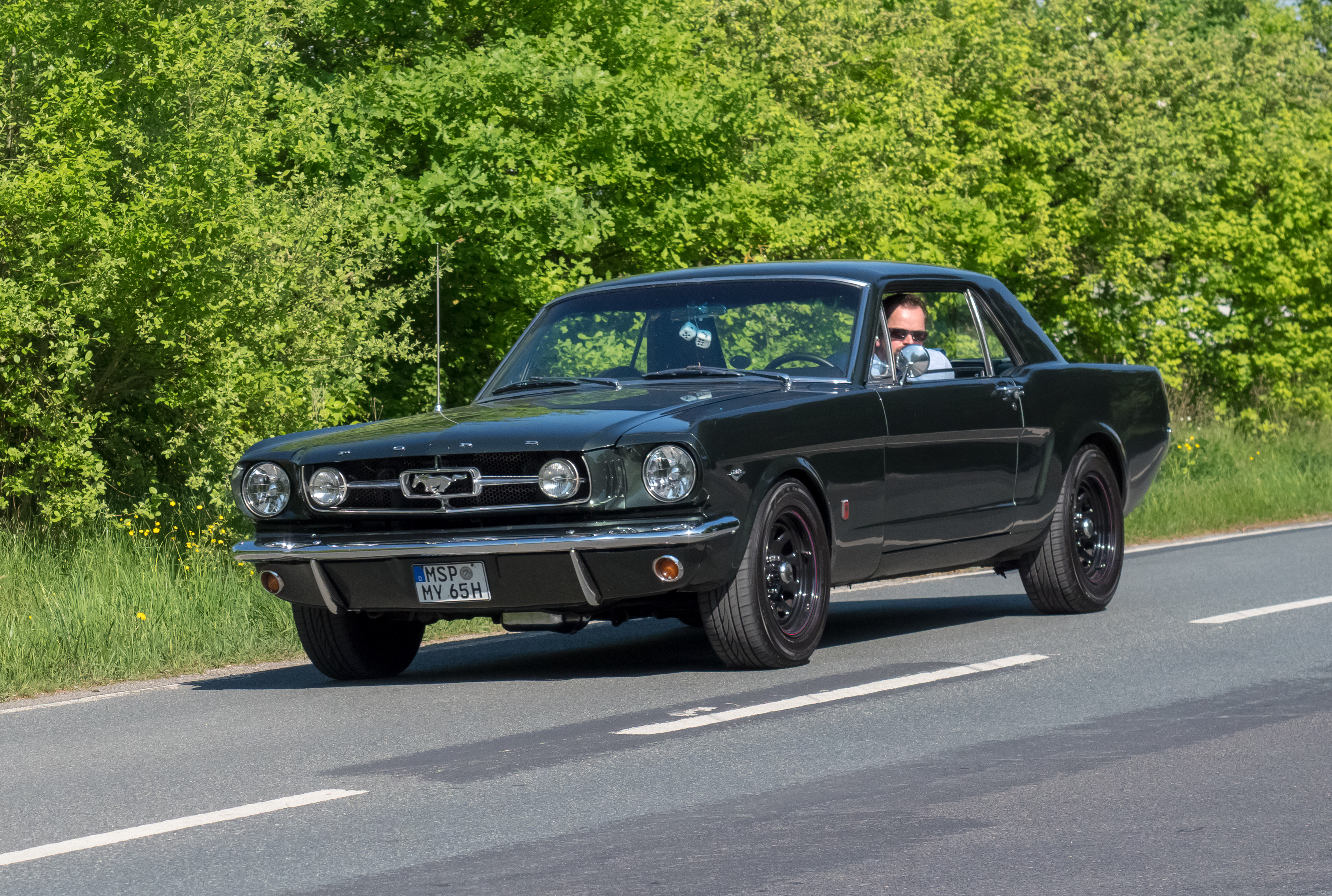 Ford Mustang GT 1965 at the Prichsenstadt Classics 2018